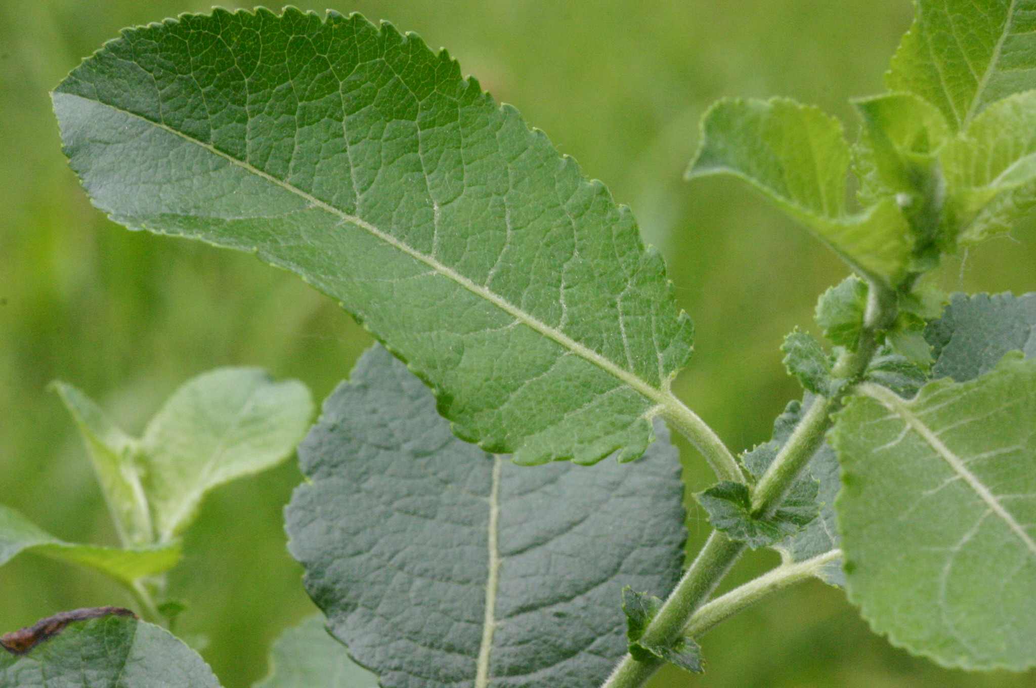 Salix myrsinifolia